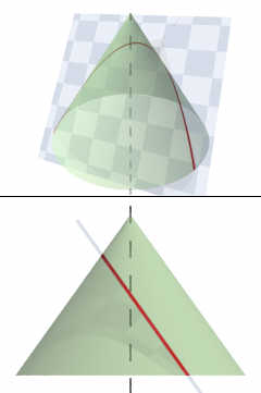 Parabola as a conic section